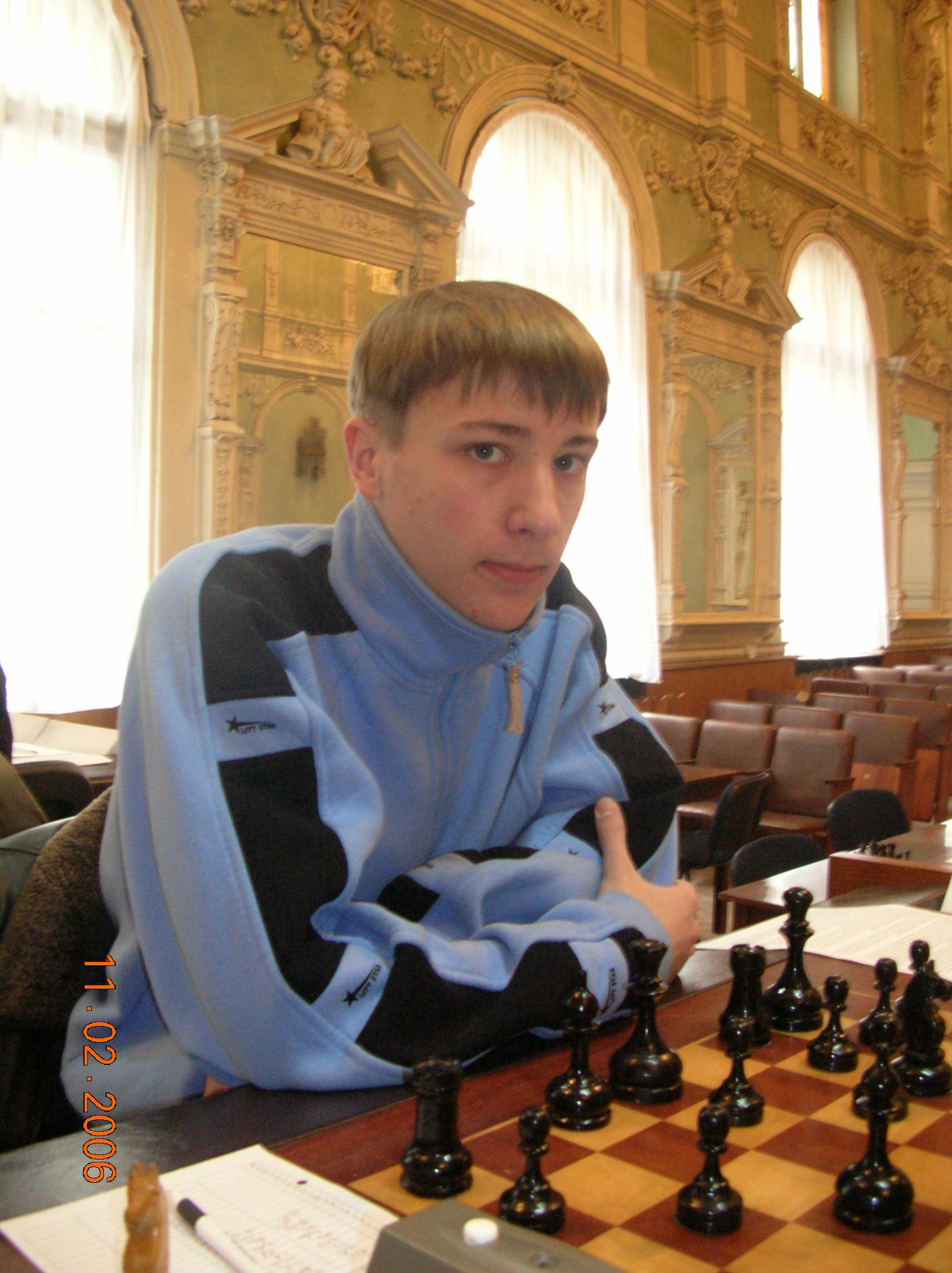 Kryvoruchko Yuriy, Chess player from Ukraine